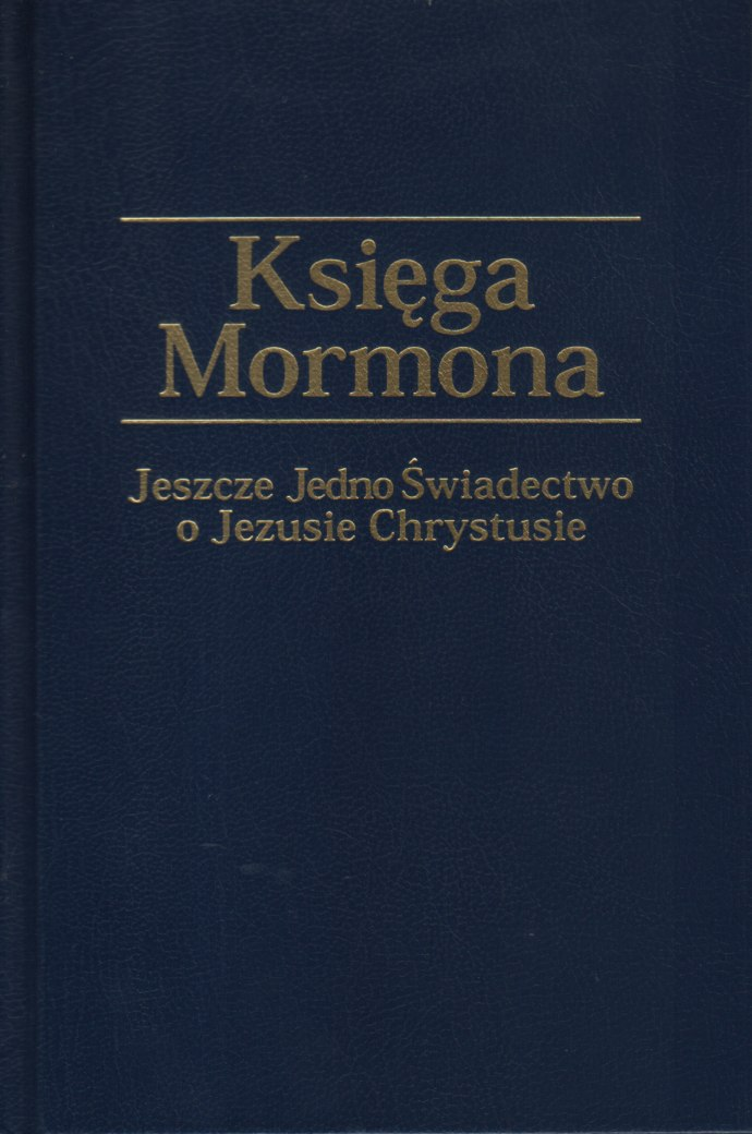 Cover of a Polish Book of Mormon, published by The Church of Jesus Christ of Latter-day Saints.